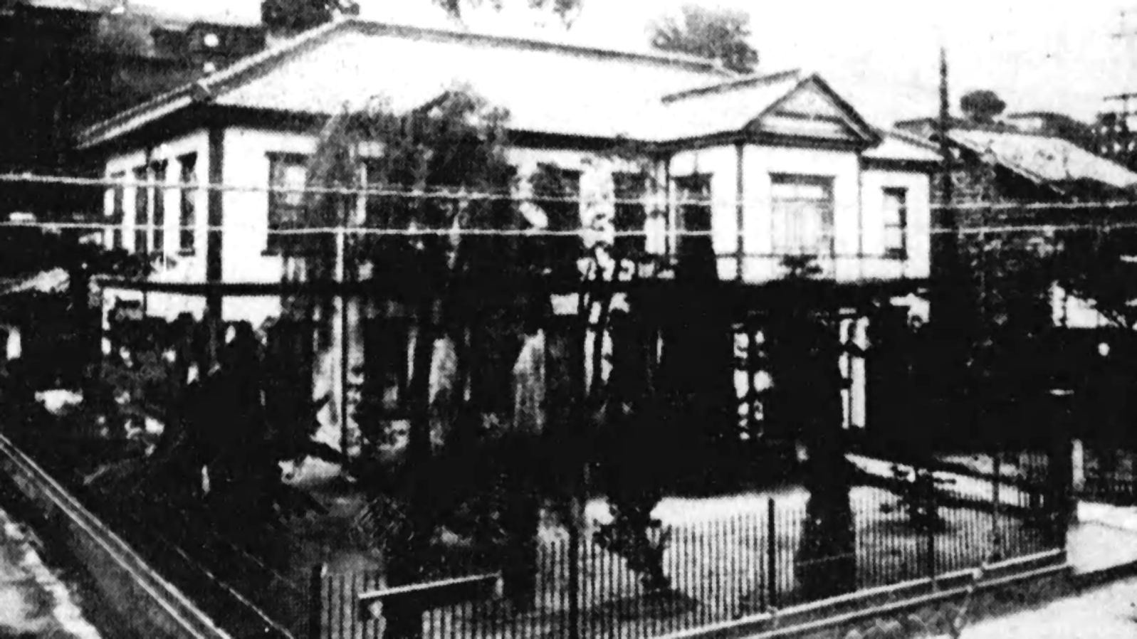 Suwa district office.